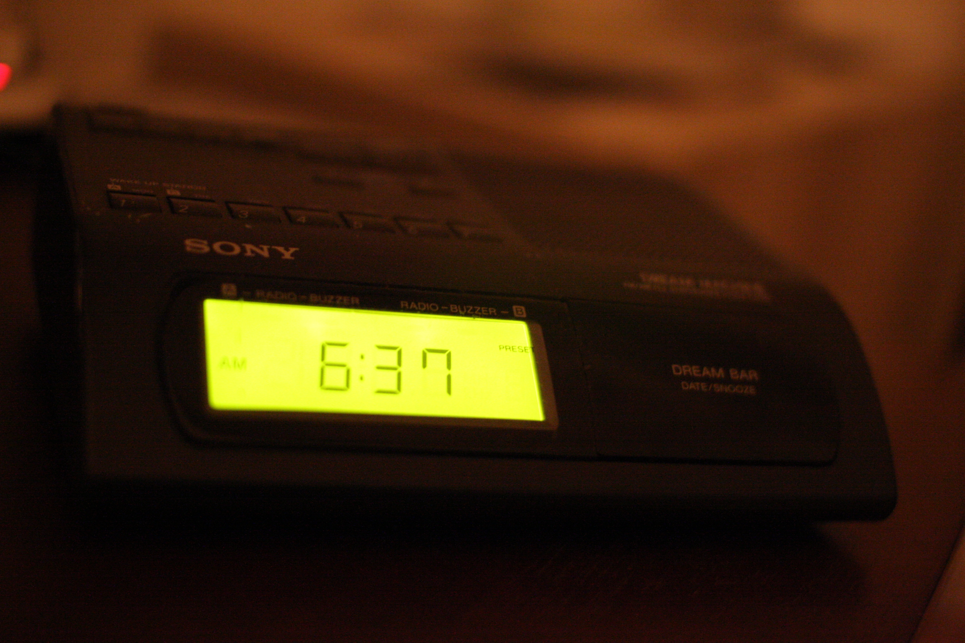 I started early this morning. Early taking pictures, that is. This Sony Dream Machine is from college. My mom sent it to me after I slept through my first class. Mom's good like that. I usually set my clock a few minutes fast, to help me get places in time. It's actually more like 6:30am